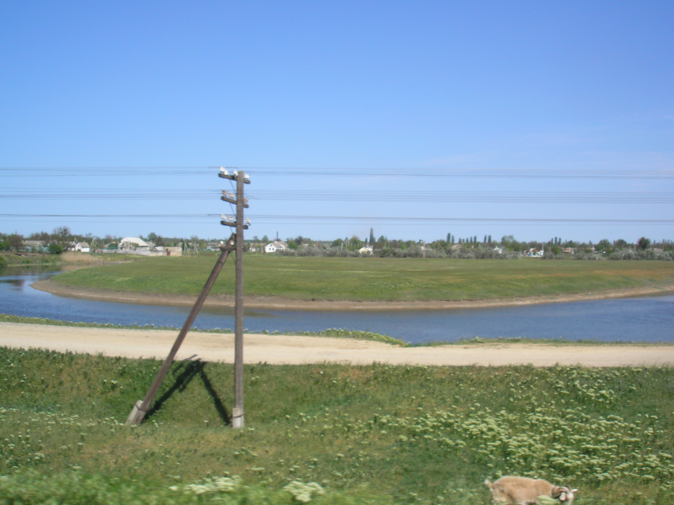 Ponds on the river Pobednaya, Dzhankoysky region, Crimea.